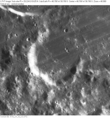 LO-IV-142H Lee is in the center. A piece of the south rim of Doppelmayer is visible at the top. The shallow 8-km just outside Lee’s southwest rim is Lee A and a little irregular 4-km pit in the upper left, near the margin at about 10 o’clock from the center of Lee is Lee T. The entire upper right quadrant of this frame is regarded as part of Lee M, a 47-km ruined enclosure of the southwest floor of Mare Humorum between Doppelmayer and Vitello.